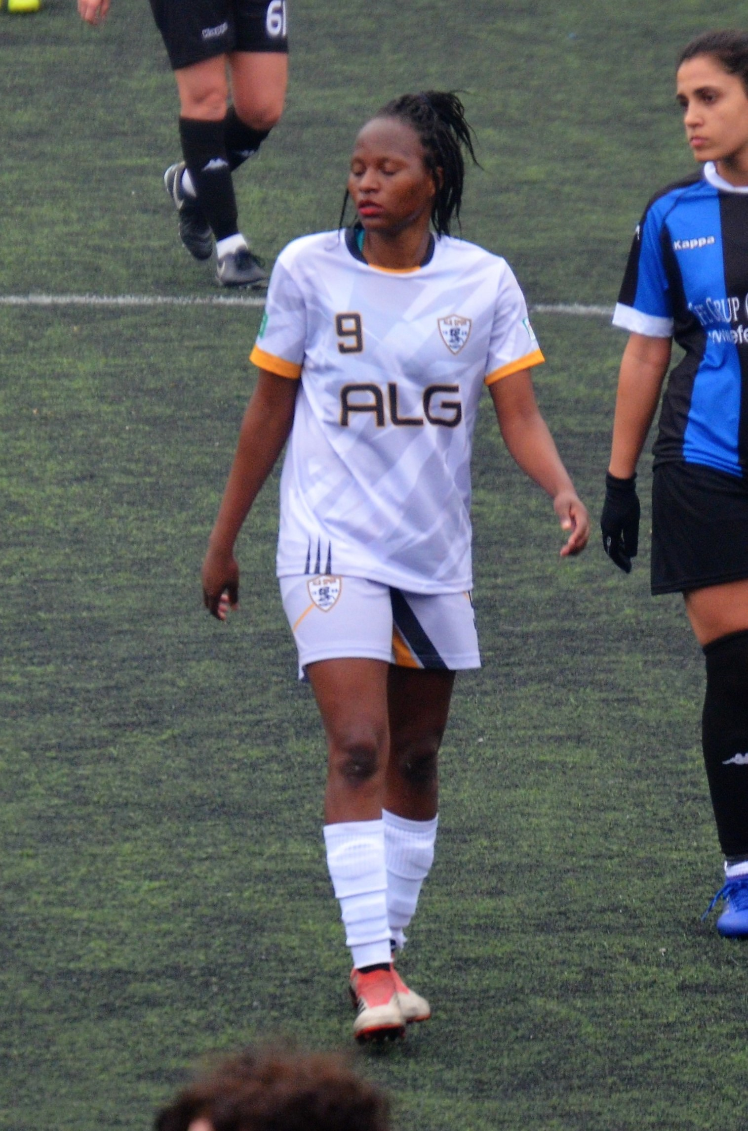 Letago Madiba from South Africa playing for ALG Spor in the 2019-20 Turkish Women's First Football League.